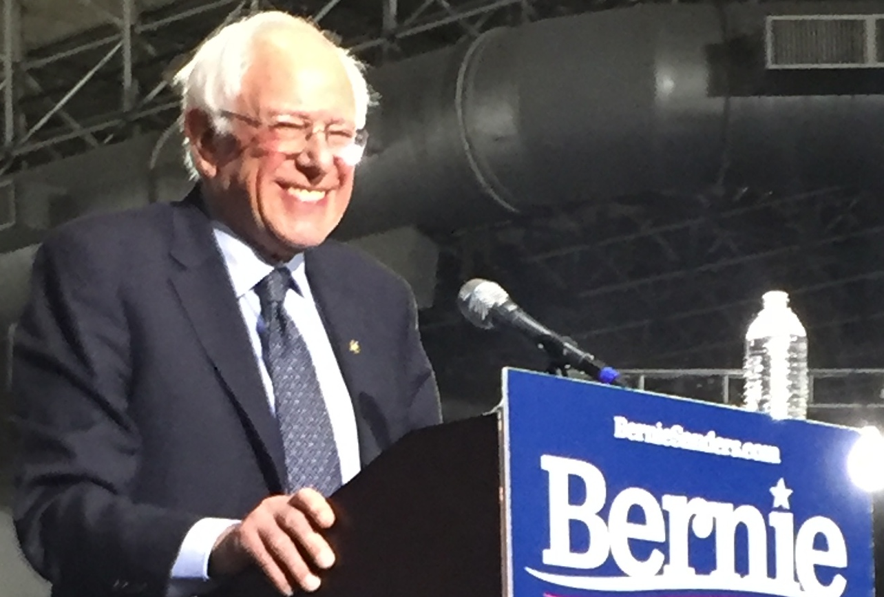 Bernie Sanders smiling at his supporters at his Chicago rally